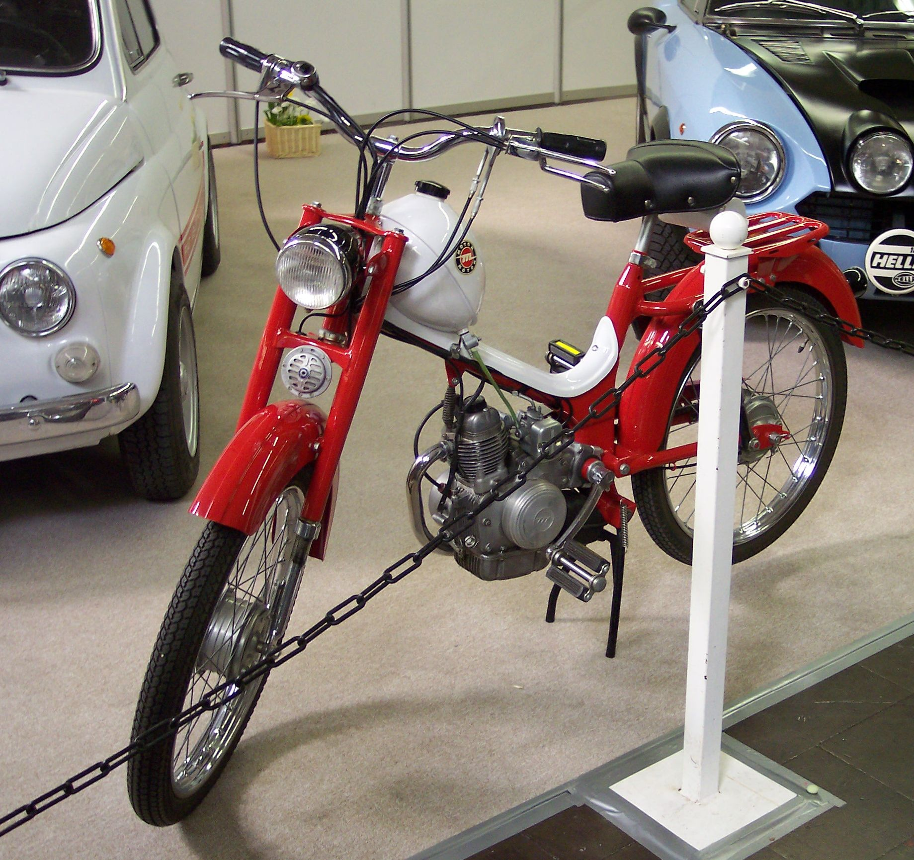 Motom Moped